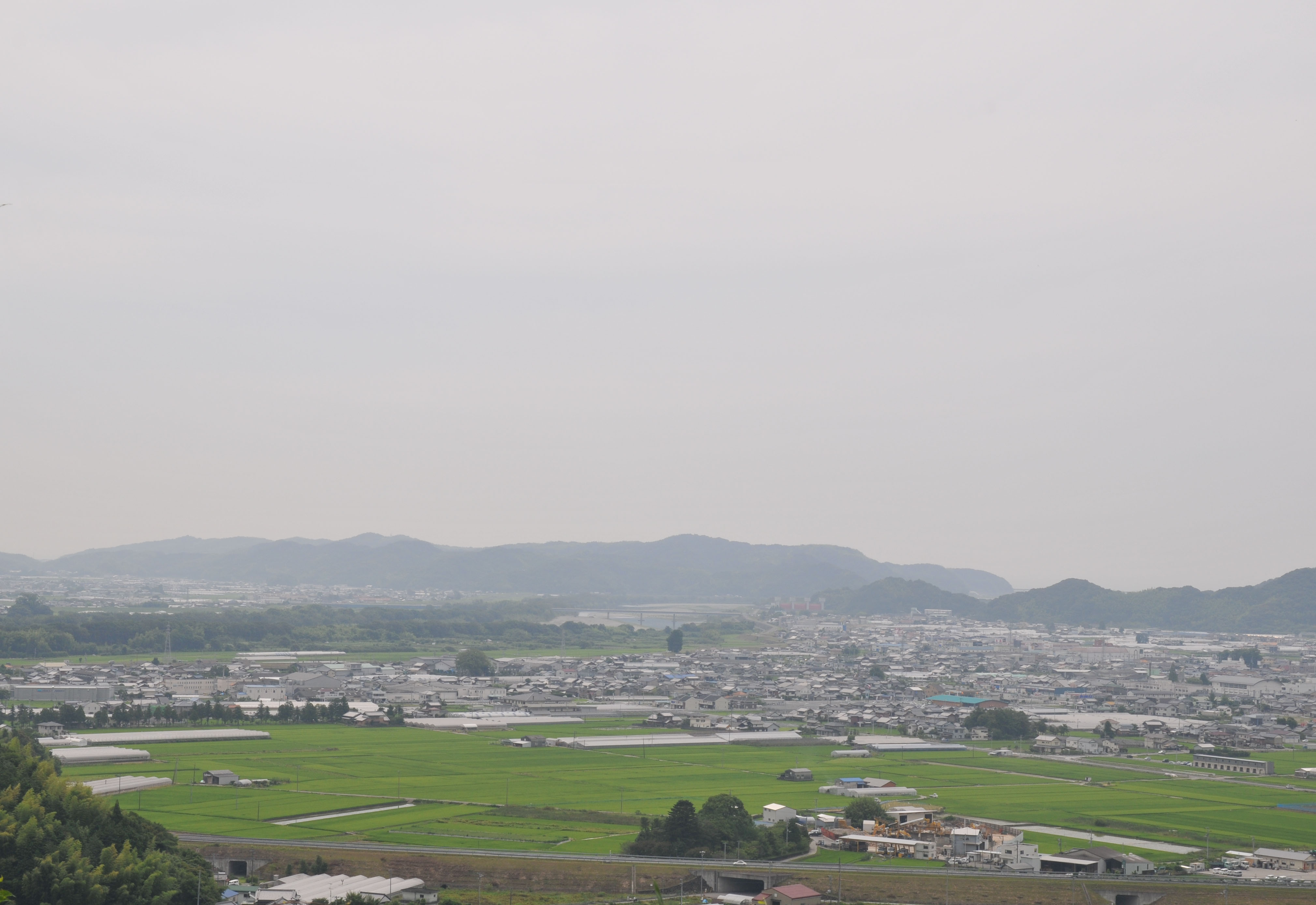 Tosa plain view from Kiyotaki-ji